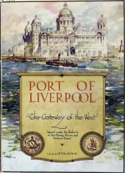 Image showing a MDHB advert for the Port of Liverpool